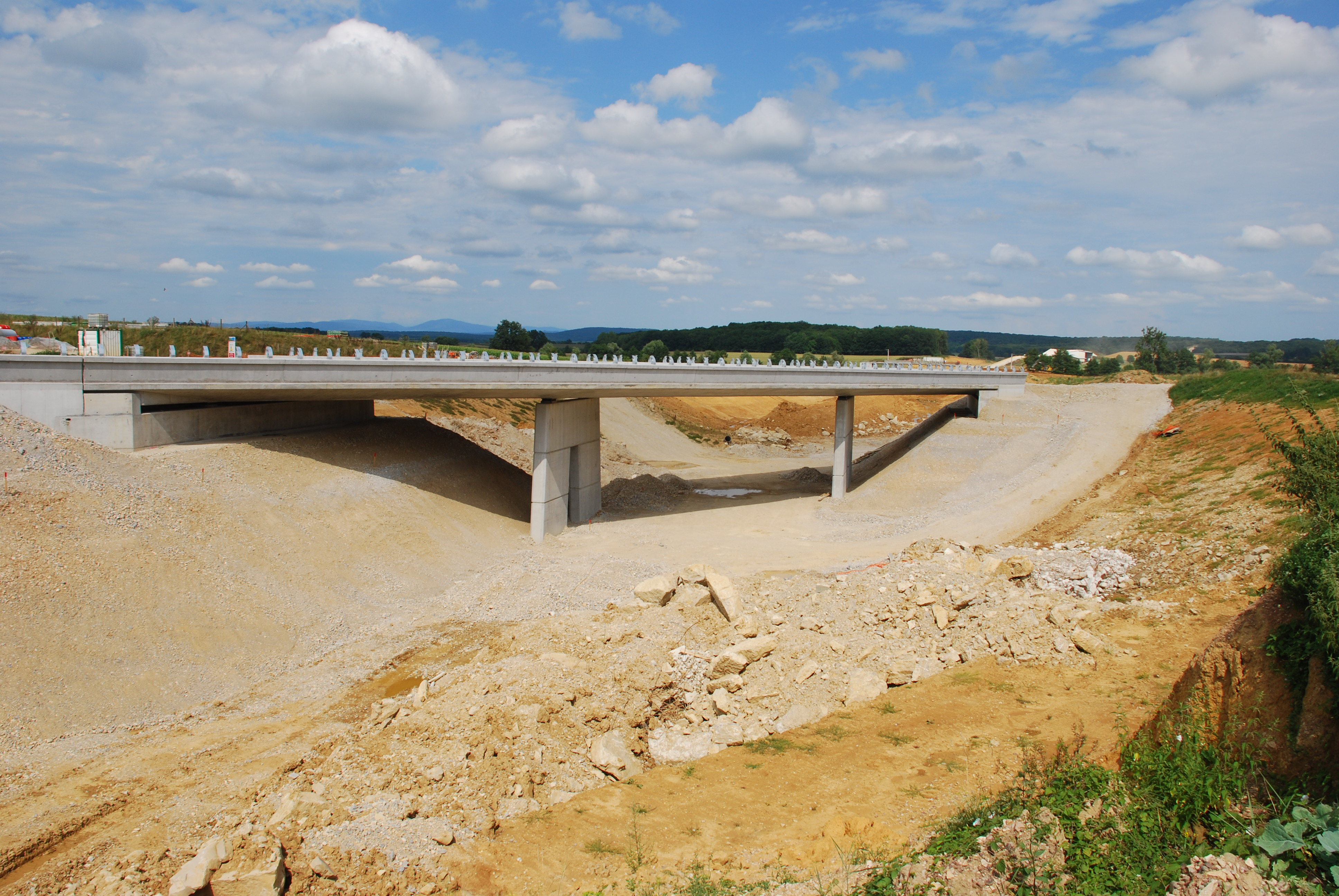 Construction Site of LGV Rhin-Rhône near Villargent in July 2008 - Eastbound. With a concrete bridge for the D7 road at the forefront.